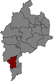 Location of Peramola in Alt Urgell